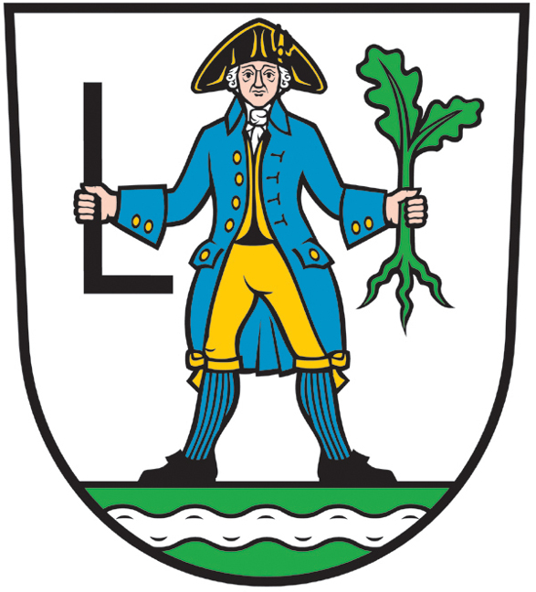 granted 25 October 2017.